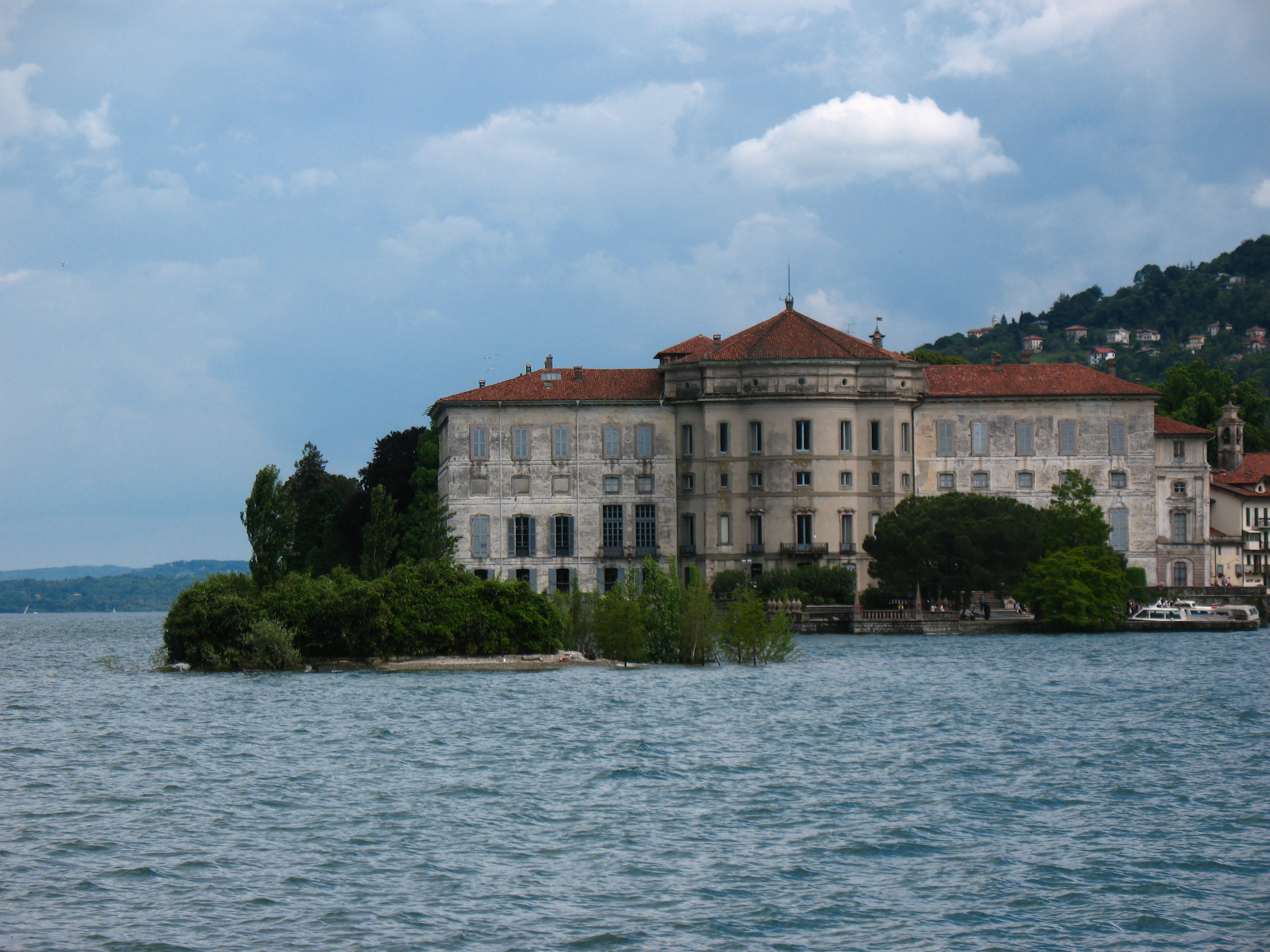 Lake Maggiore